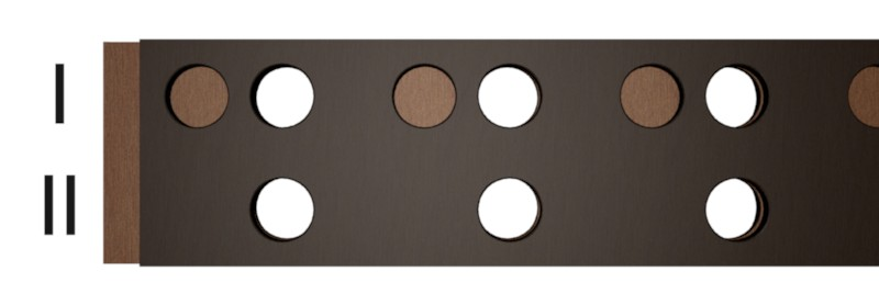 double-draw tracker of a pipe organ, second position